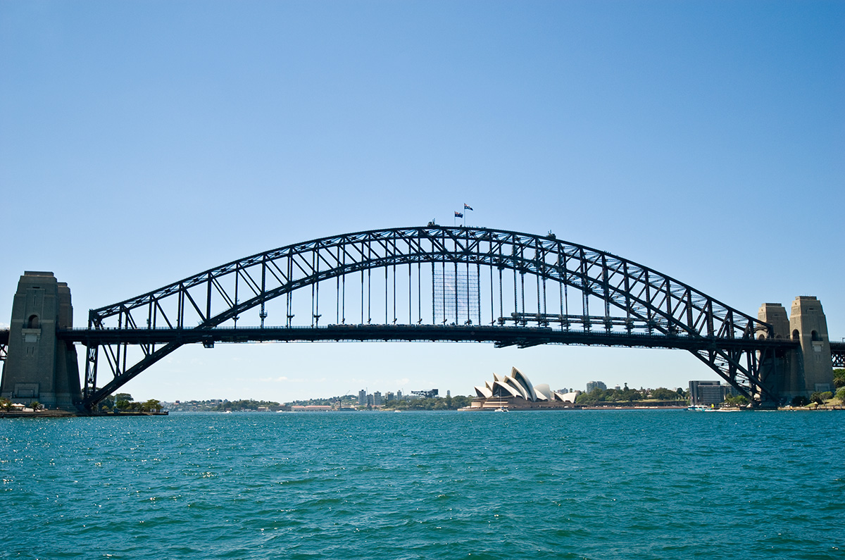 Bridge 2